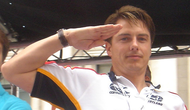 British actor John Barrowman saluting on a float at the 2007 London Gay Pride parade